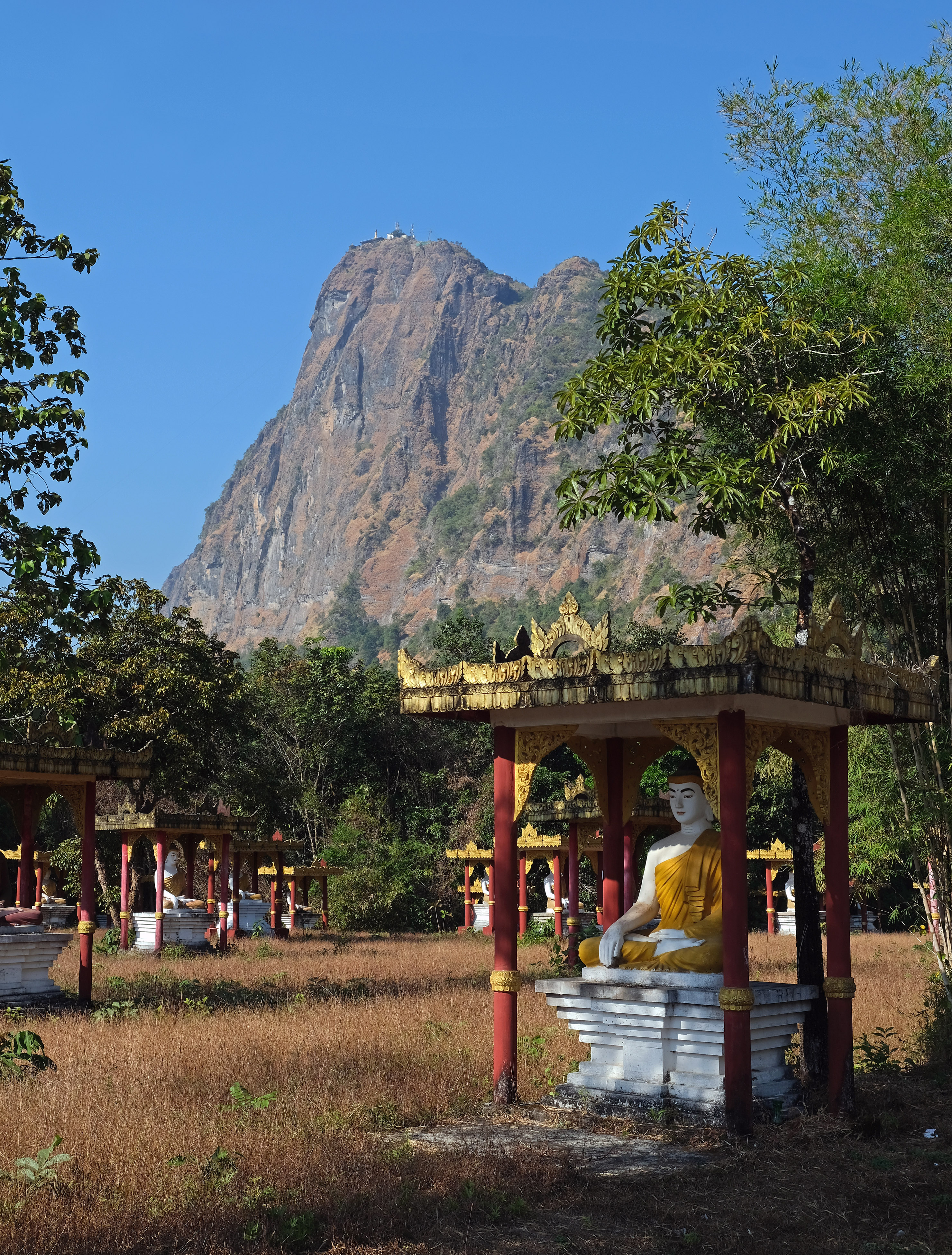 Lumbini buddha Garden, Hpa An.